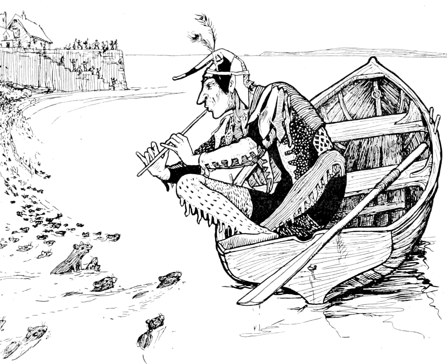 Scan illuatration on page of book in a series of fairy tales. A warning to children.